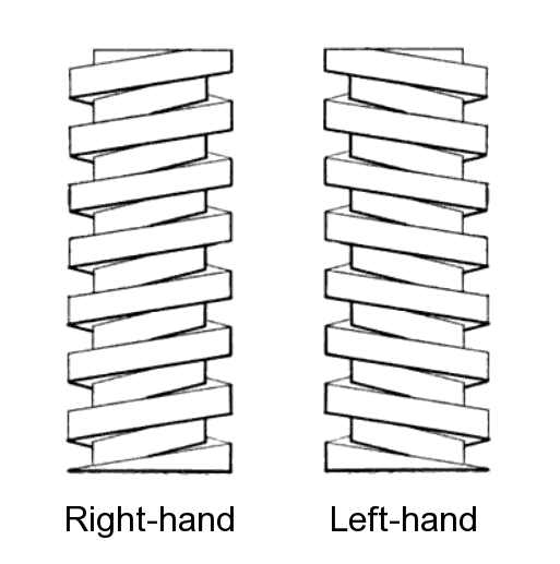 Drawing showing the difference between right-handed and left-handed screw threads. The handedness of screw threads is determined by the right hand grip rule; in a right-handed screw, if the fingers of the right hand are wrapped around the screw in the direction the screw is turning, the thumb will point in the direction the shaft moves. The type of screw thread shown is called a square thread. Alterations to image: cropped screw thread images out of source drawing, rotated them 90° and added captions